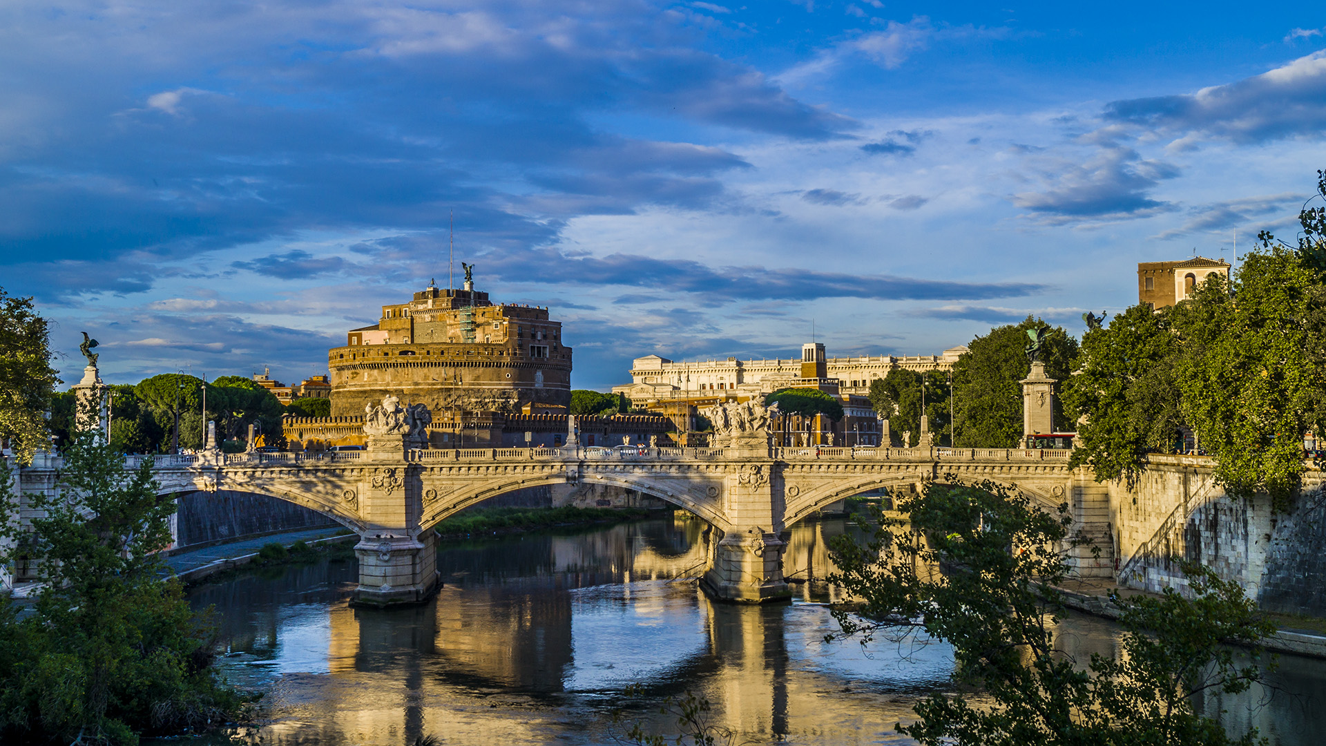 Castel Sant'Angelo